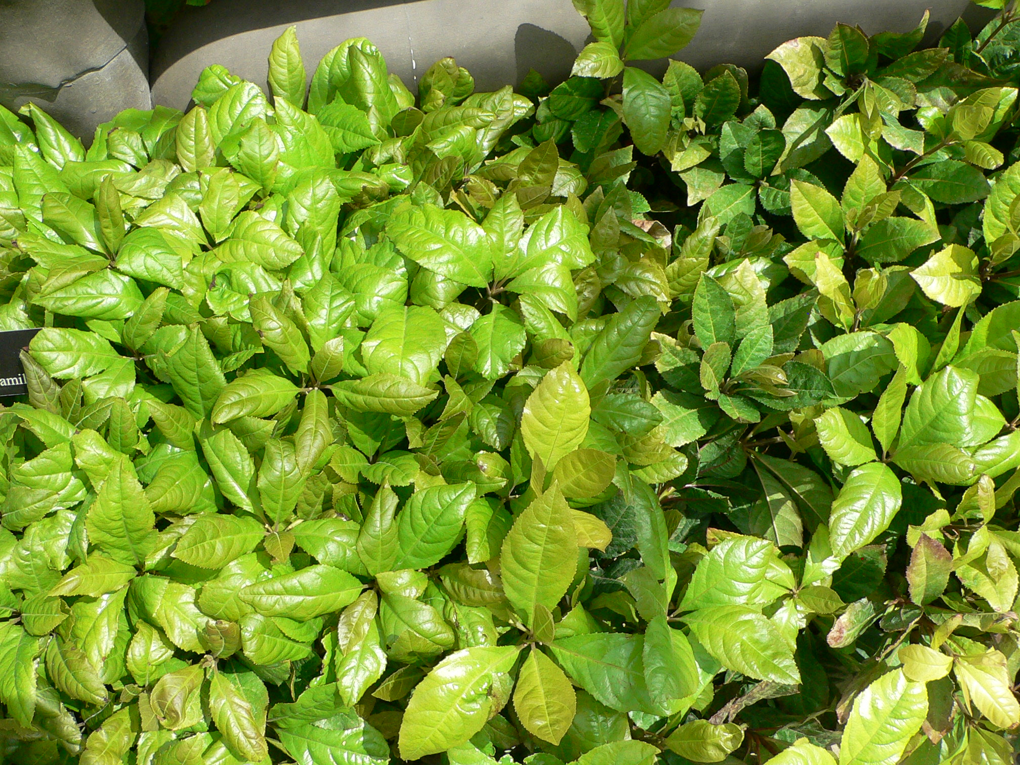 Pictures taken by myself at Longwood Gardens